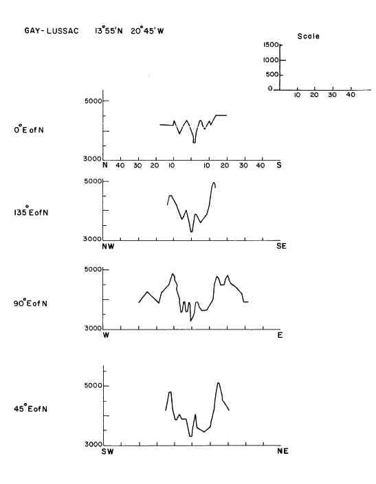 Gay-Lussac crater cross section